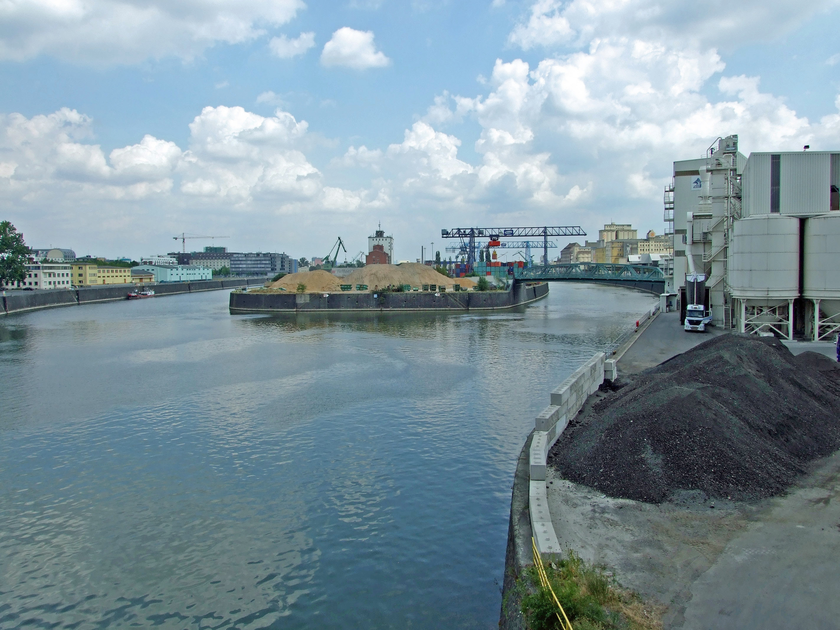 North and south basin of habour in Osthafen of Frankfurt am Main Ostend